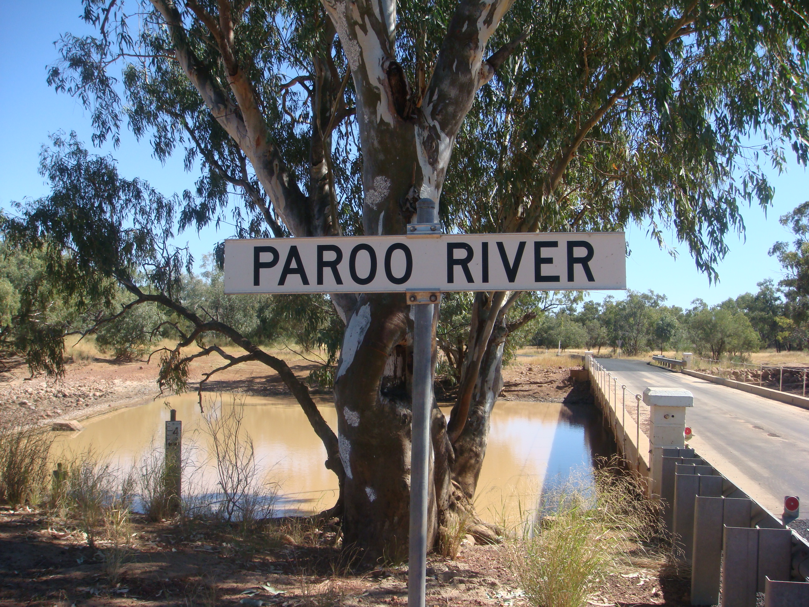 The Paroo river crossing and weir at Eulo.